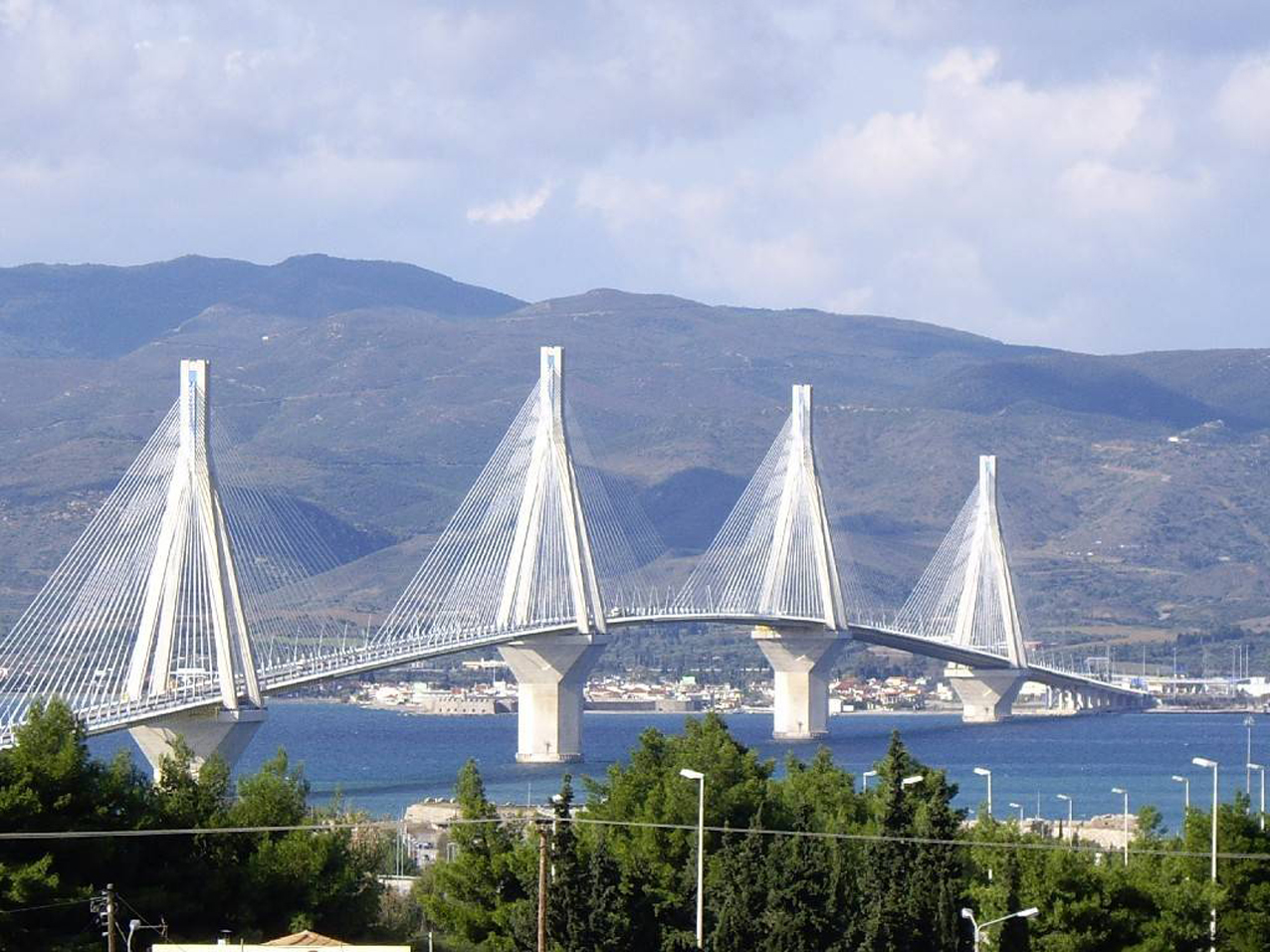 Rio-Antirio Bridge